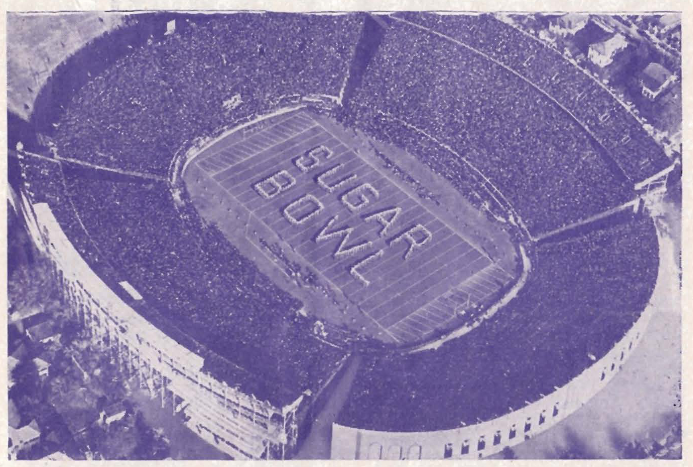 The "Sugar Bowl" Tulane Stadium, New Orleans; 1940s air view. (The Willow Street entrance is to the top left.)